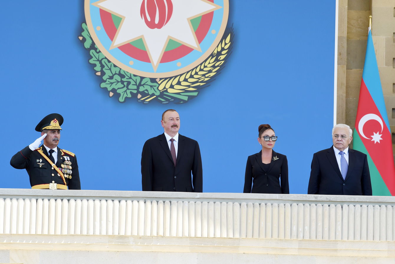 A solemn military parade has been held in Baku to mark the centenary of the establishment of the Armed Forces of the Republic of Azerbaijan.